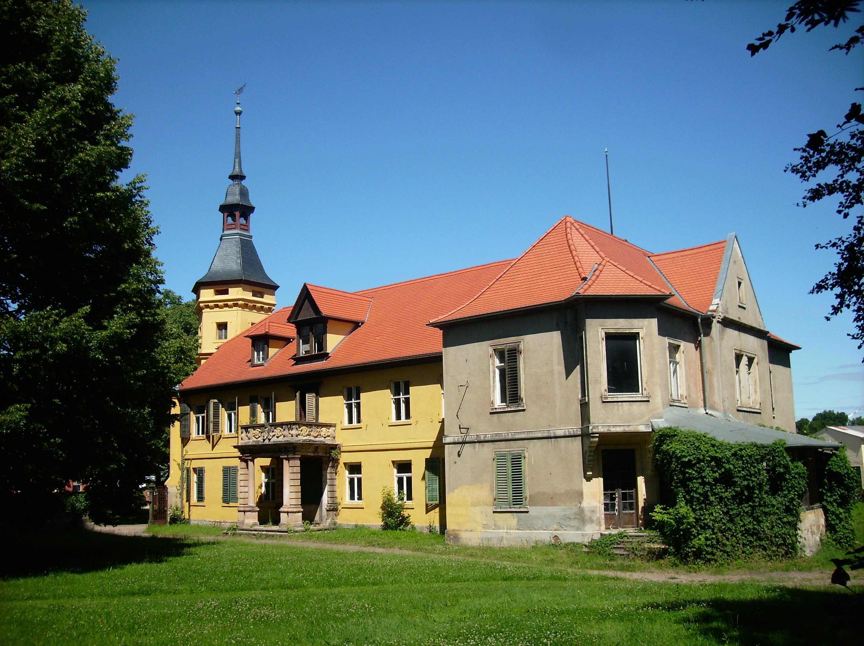 Cösitz Castle (Zörbig, Anhalt-Bitterfeld district, Saxony-Anhalt)